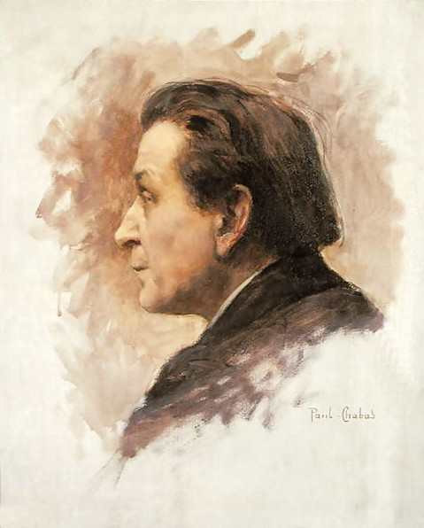 Portrait of François Coppée (1842-1908)